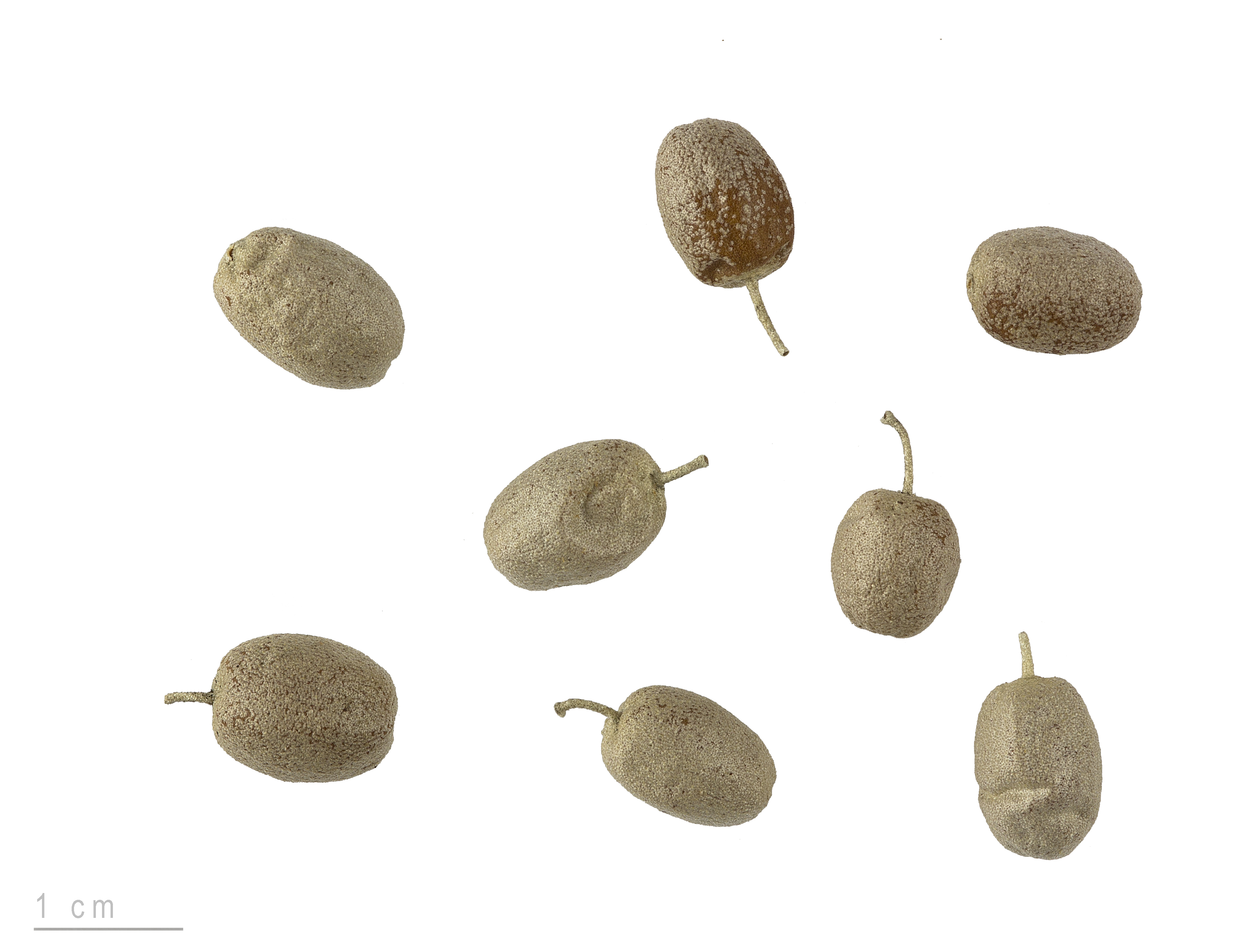 Silver berry , fruits and seeds